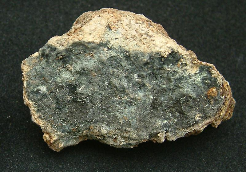 Uraninite, variety Sooty Uraninite Locality: Kingswood Mine, Buckfastleigh, Dartmoor & Teign Valley District, Devon, England, UK Description: Collected in autumn 2003 from the spoil head at the entrance to the adit. This piece has no discernable crystal structure but gives a reading of 100 counts per second at a distance of 30cm. The field of view is 5.5cm. Chris Popham specimen and photo 2004.